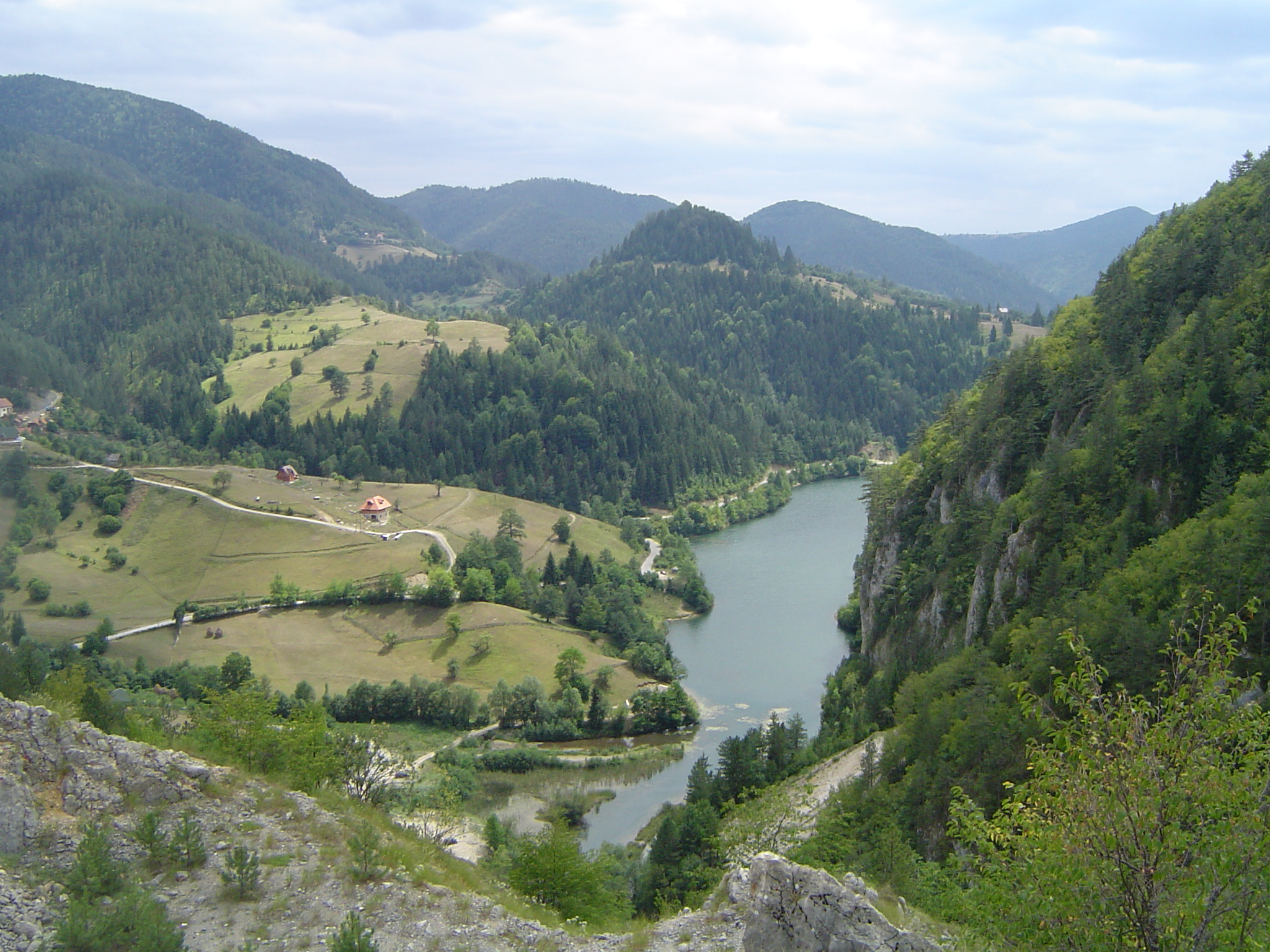 Zaovine Lake, part where Picea omorika (Serbian Spruce) was discovered by the Serbian botanist Josif Pančić. Српски (ћирилица): Језеро Заовине, део где је пронађена Панчићева оморика (Picea omorika).